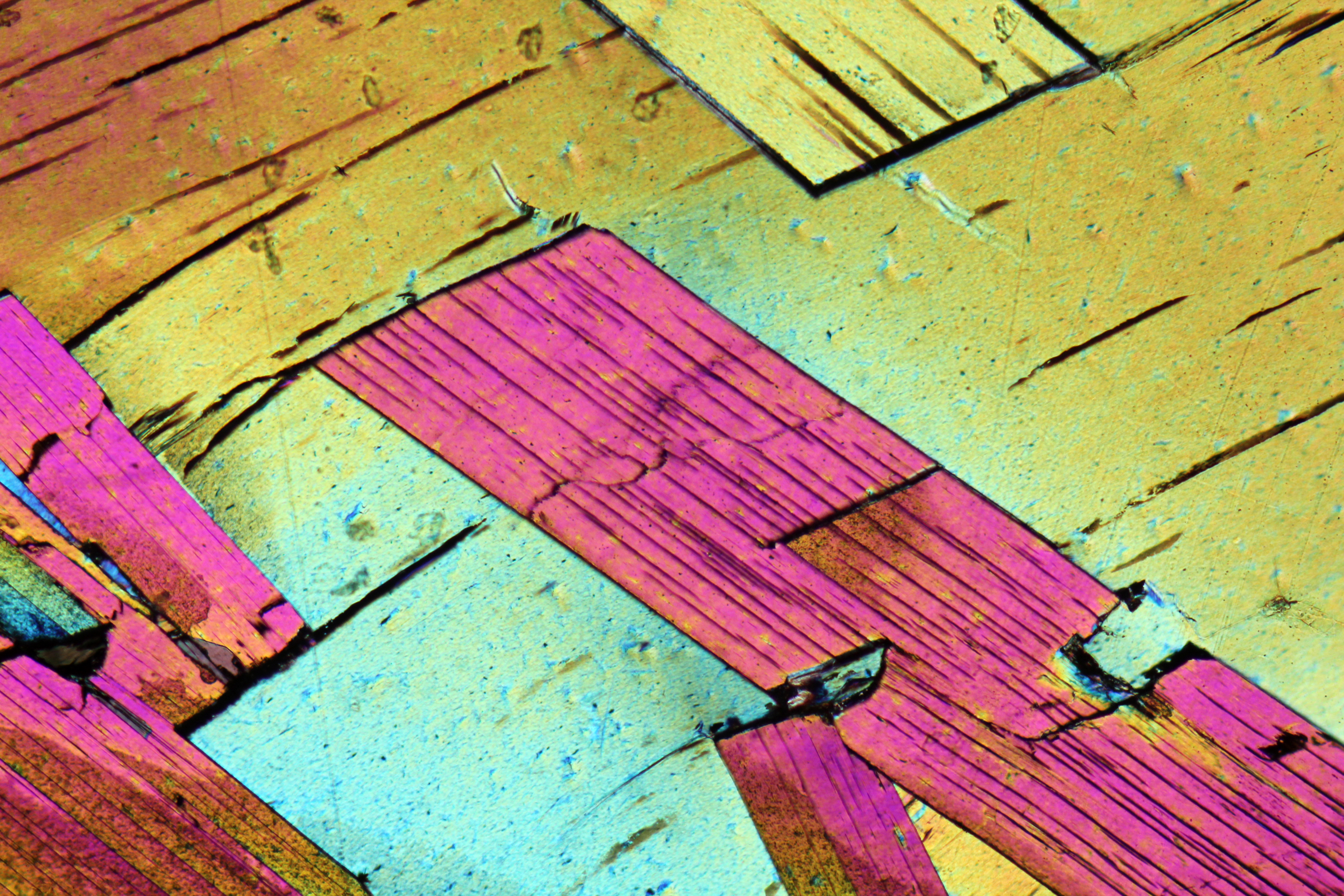 Big Muscovite crystals in a Gneiss. Crossed nicols image, magnification 2x (Field of view = 7mm)